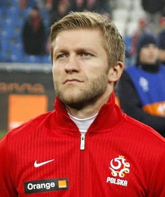 Jakub Błaszczykowski